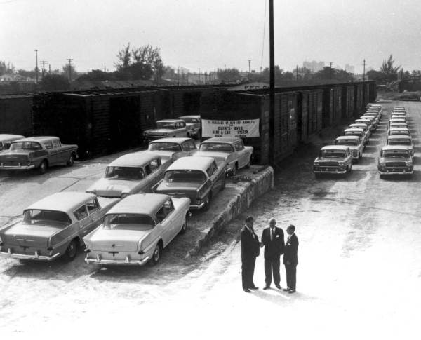 Local call number: PR09162 Title: Fifty-six carloads of new 1958 Ramblers Date: 1958 Physical descrip: 1 photograph; b&w; 8 x 10 in. Series Title: Print collections General note: Cars belonged to Olin's Avis Rent-A-Car. Repository: State Library and Archives of Florida, 500 S. Bronough St., Tallahassee, FL 32399-0250 USA. Contact: 850.245.6700. Persistent URL